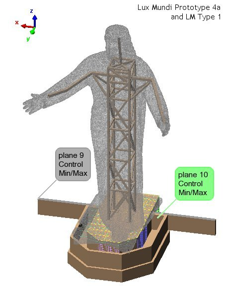 Digital model showing the steel structure of "Lux Mundi", the statue of Jesus at Solid Rock Church.